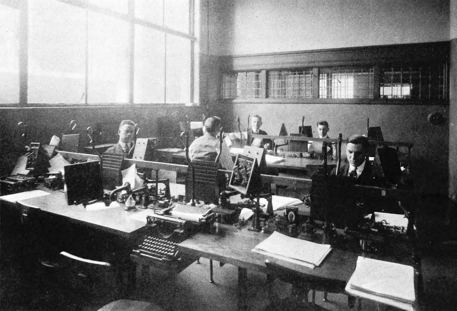 Telegraphic Department, The Detroit News.